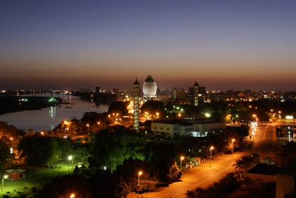 Khartoum downtown view at night